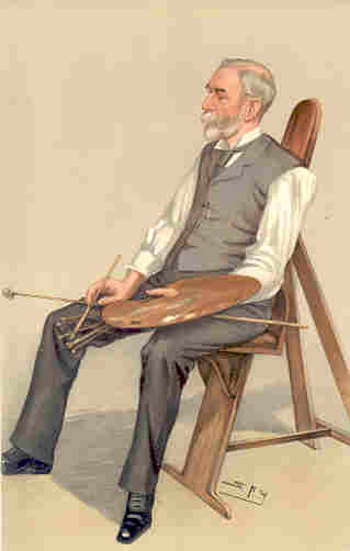 Caricature of Edward Poynter. Caption read "PRA".